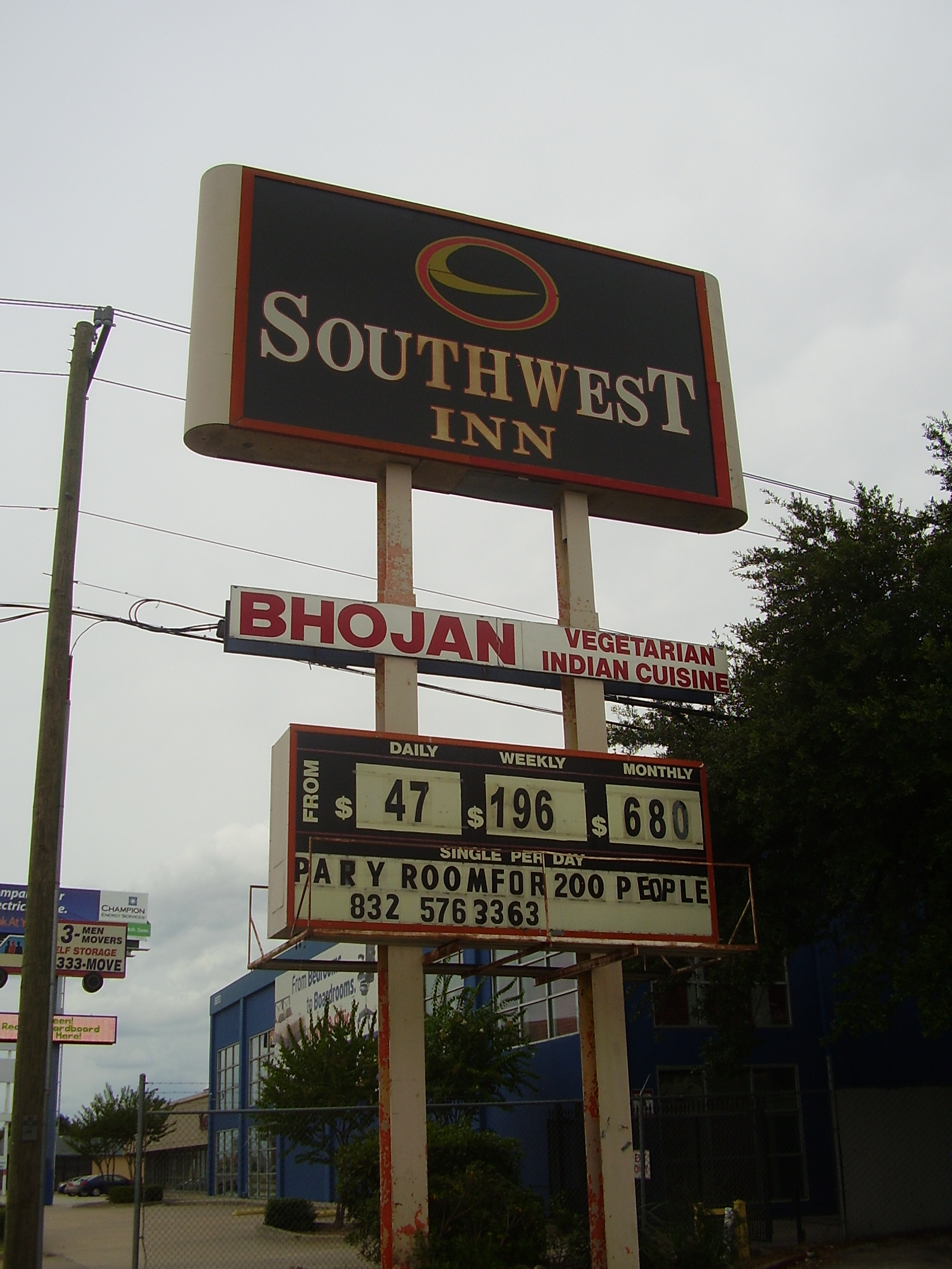 Aftermath of the Southwest Inn fire